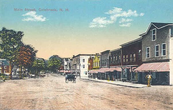 Main Street, Colebrook, NH; from a c. 1915 postcard published by J.V. Hartman & Company, Boston, Massachusetts.